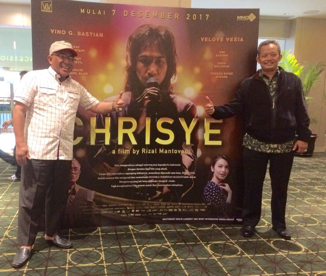 Mayor of Depok city Mohammad Idris (left) with the Assistant of Law and Social of Depok city, Sri Utomo, watching the Chrisye movie at Plaza Depok, Jalan Margonda Raya Depok City on Friday night (08/12/2017).